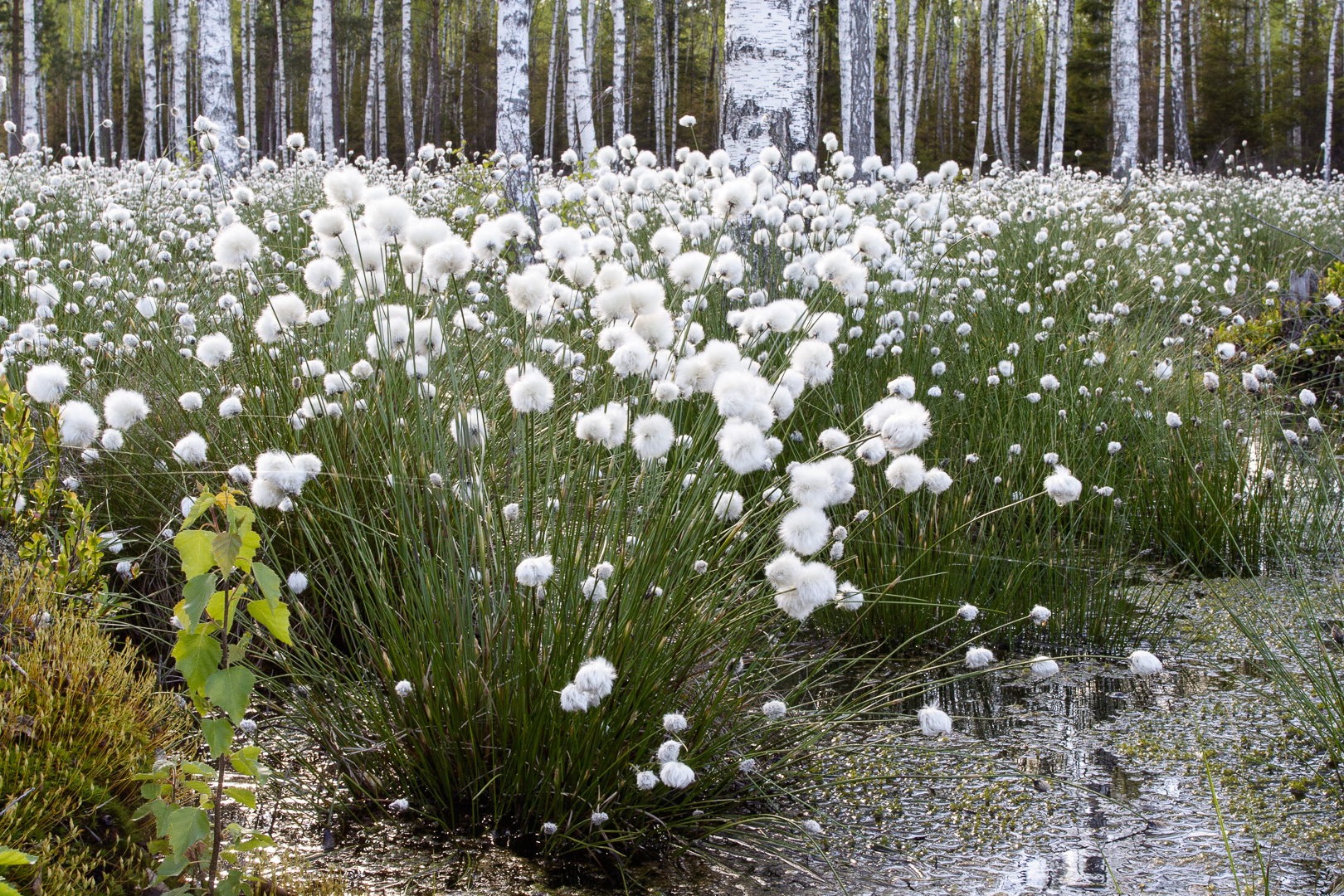 Hare's-tail cottongrass Eriophorum vaginatum. Somewhere east of Pogubie Wielkie Lake. The coordinates are approximate (士700 m). Puszcza Piska Forest (Pisz Forest), Masurian Lake District (Masurian Lakeland), Poland. This is a photography of Natura 2000 protected area with ID PLB280008 This is a photography of Natura 2000 protected area with ID PLH300045